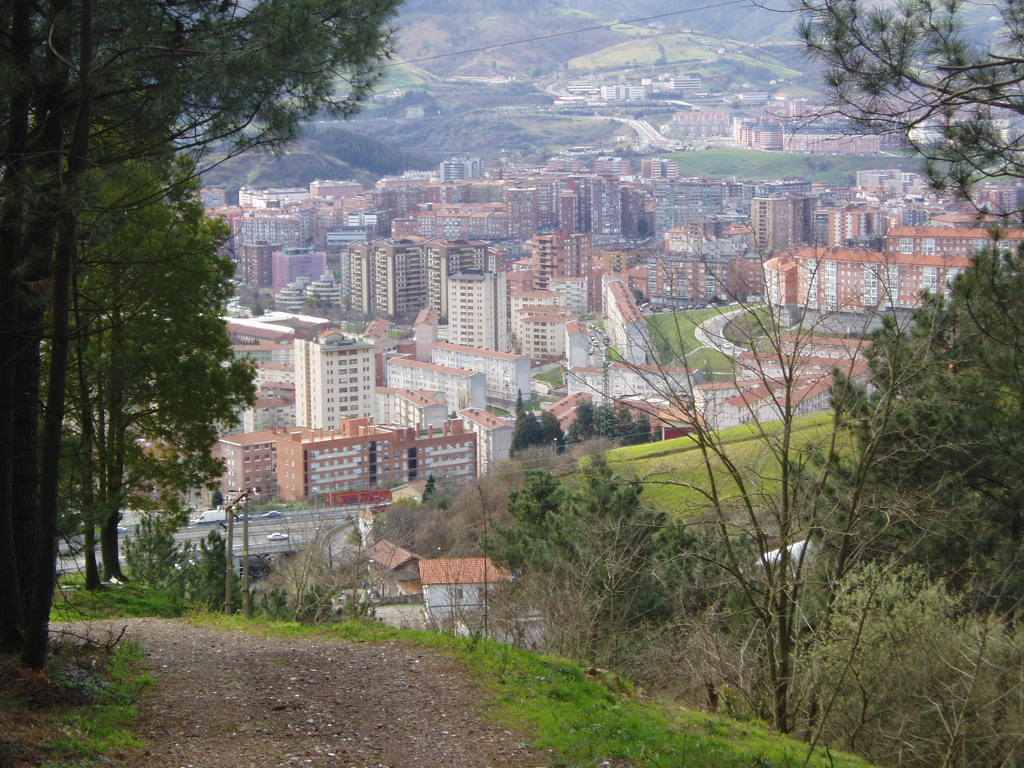 View of Bilbao from Iturritxualde/Avril mountain.